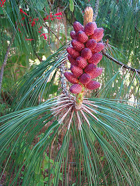 Originating in southern Mexico. San Francisco Botanical Gardens. In context at